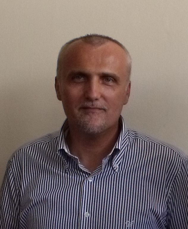 Vladica Cvetkovic, serbian geologist